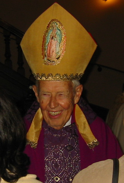 Bishop Francis Quinn at Bishop Alphonso Gallegos' cause for Beatification ceremony in Cathedral of the Blessed Sacrament in Sacramento.